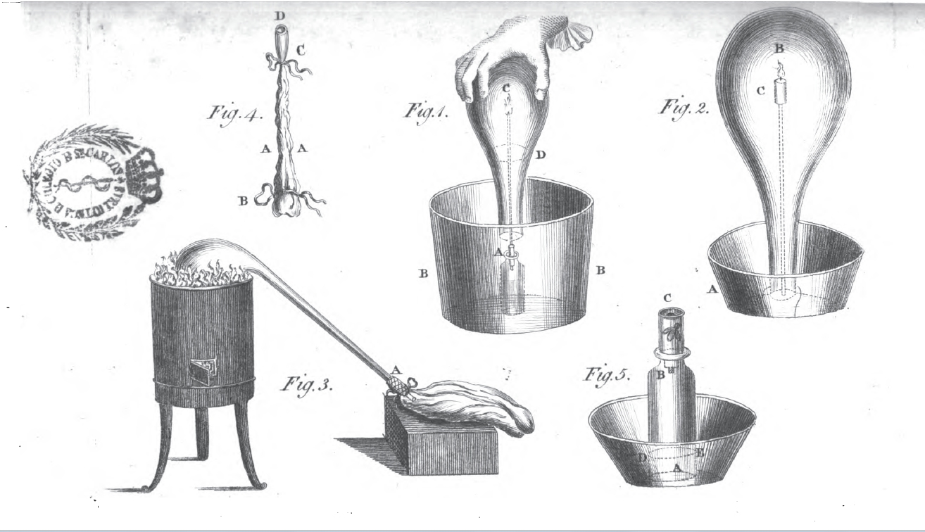 Plate from Scheele's Chemical Observations and Experiments on Air and Fire (1780 translation)